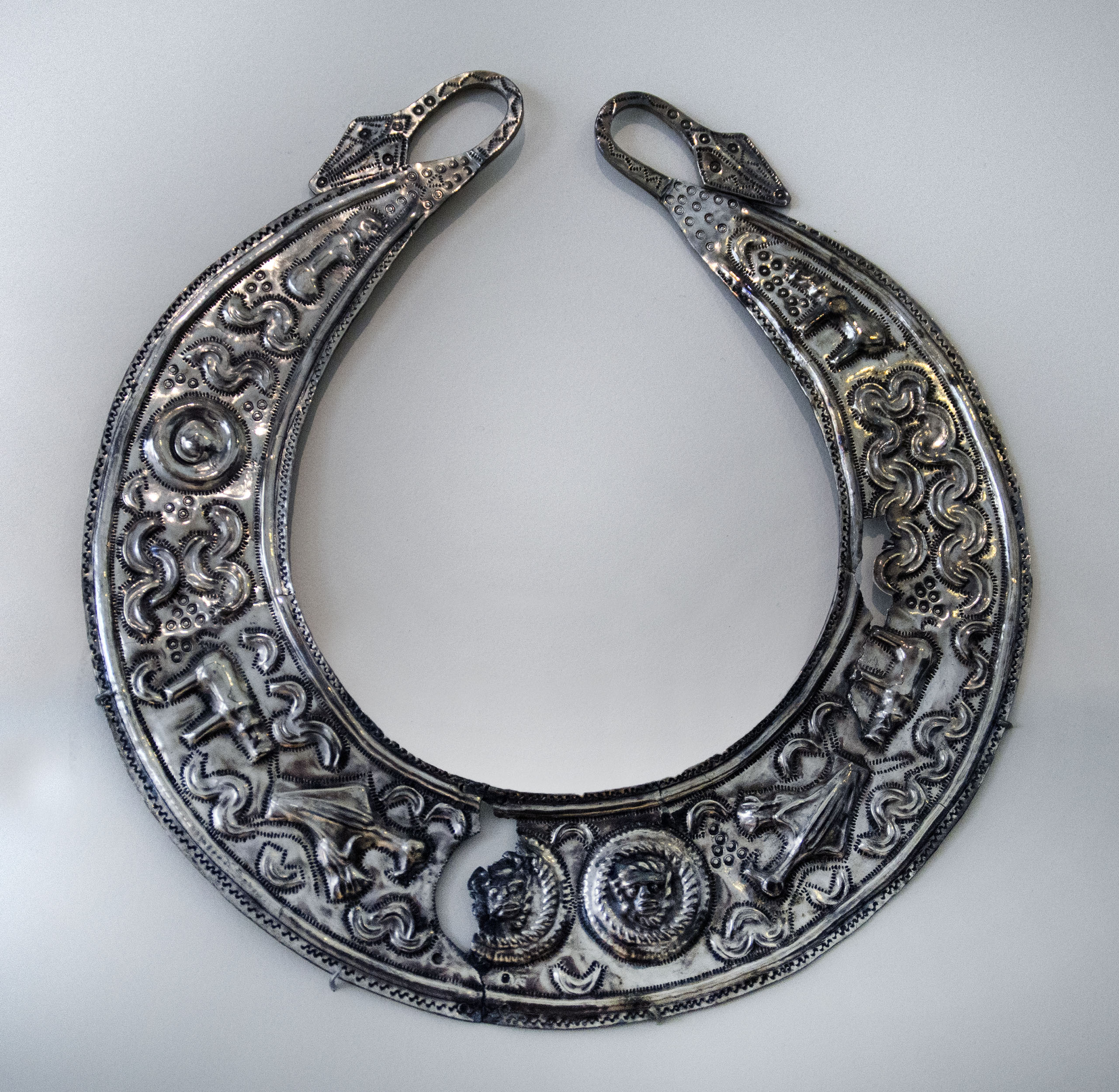 Lusitanian lunula made of embossed silver.